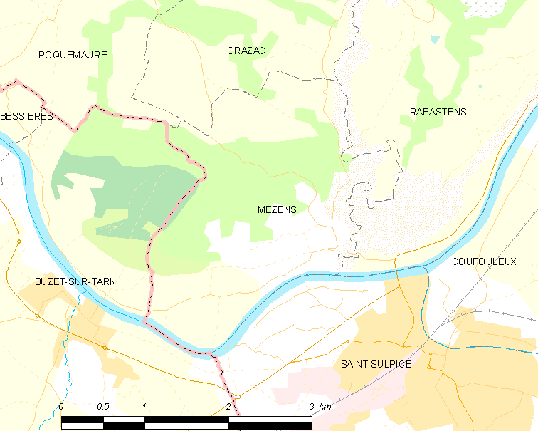 Map of French municipality Mézens